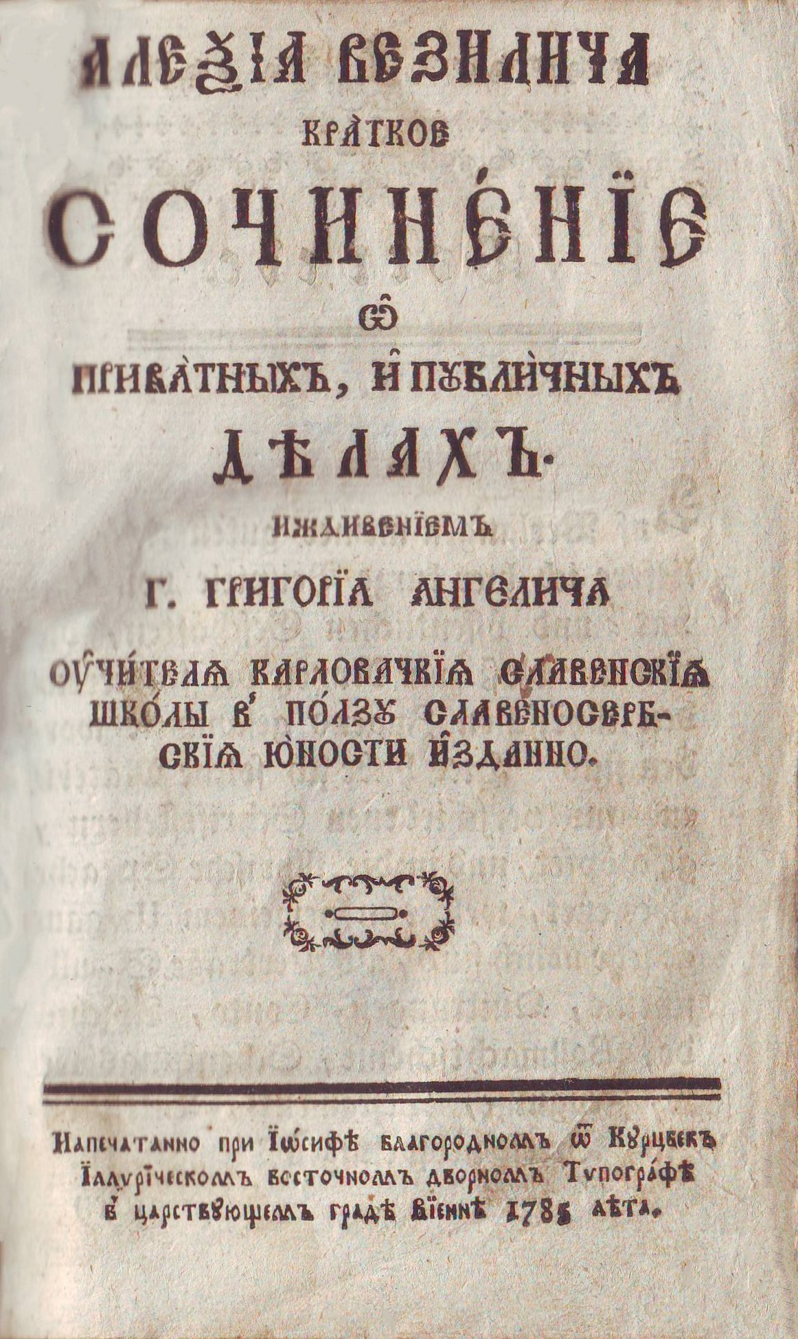 Cover of Aleksija Veziliča kratkoe sočinenije (1785). Srpski (latinica): Naslovna strana knjige Aleksija Veziliča kratkoe sočinenije (1785).